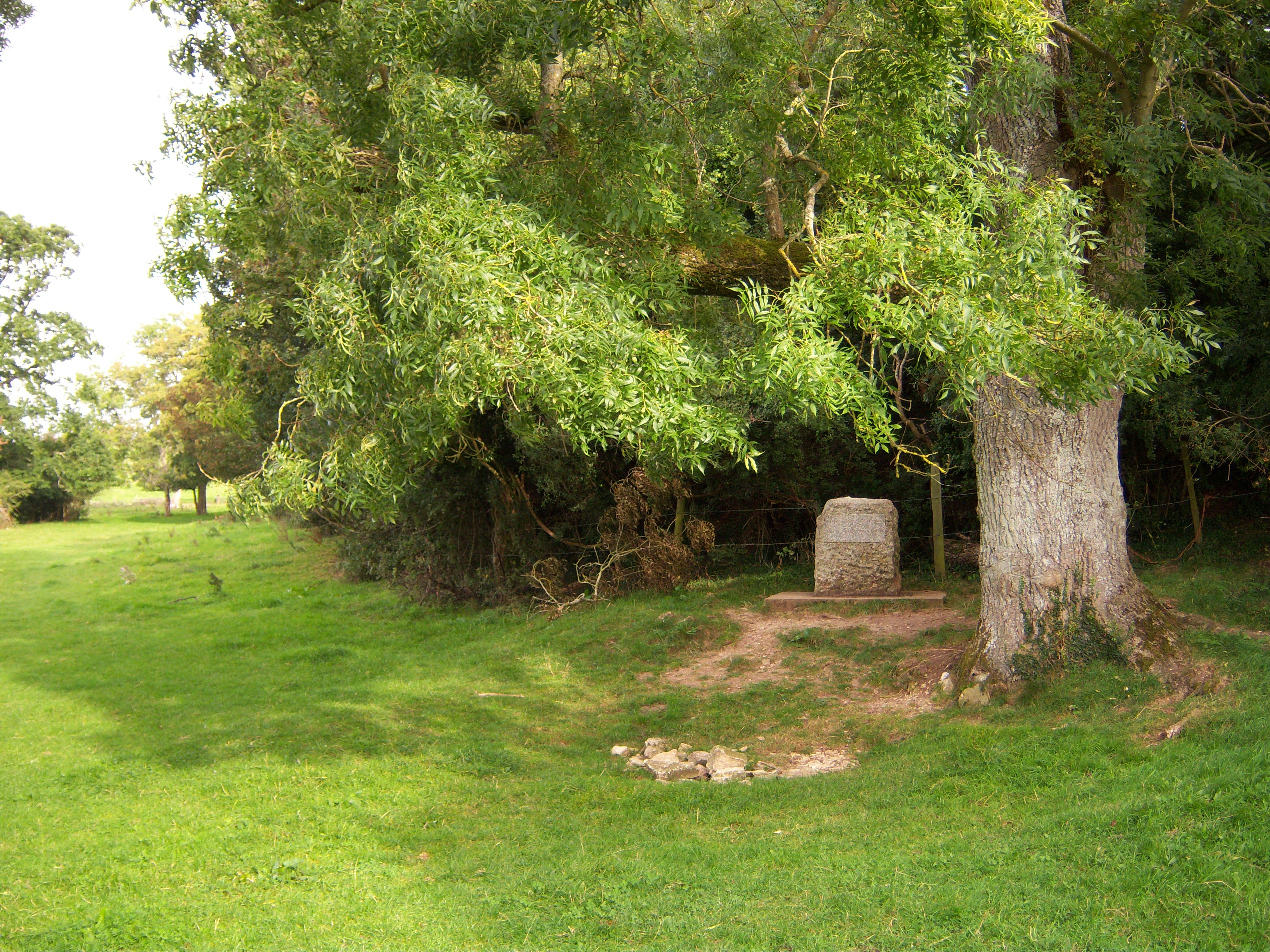 The marker stone at the official source of the River Thames near Kemble. I took this picture myself.